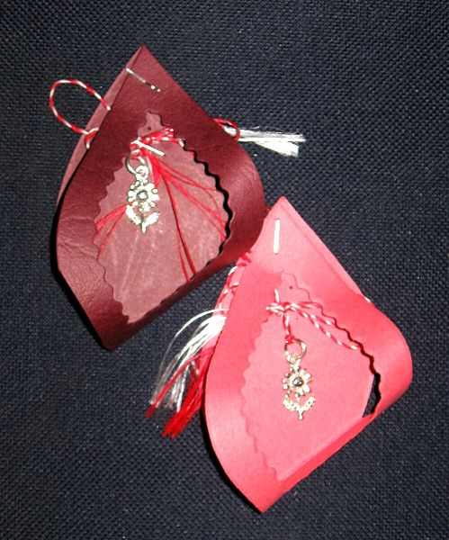 "Mărţişoare", silver jewels.